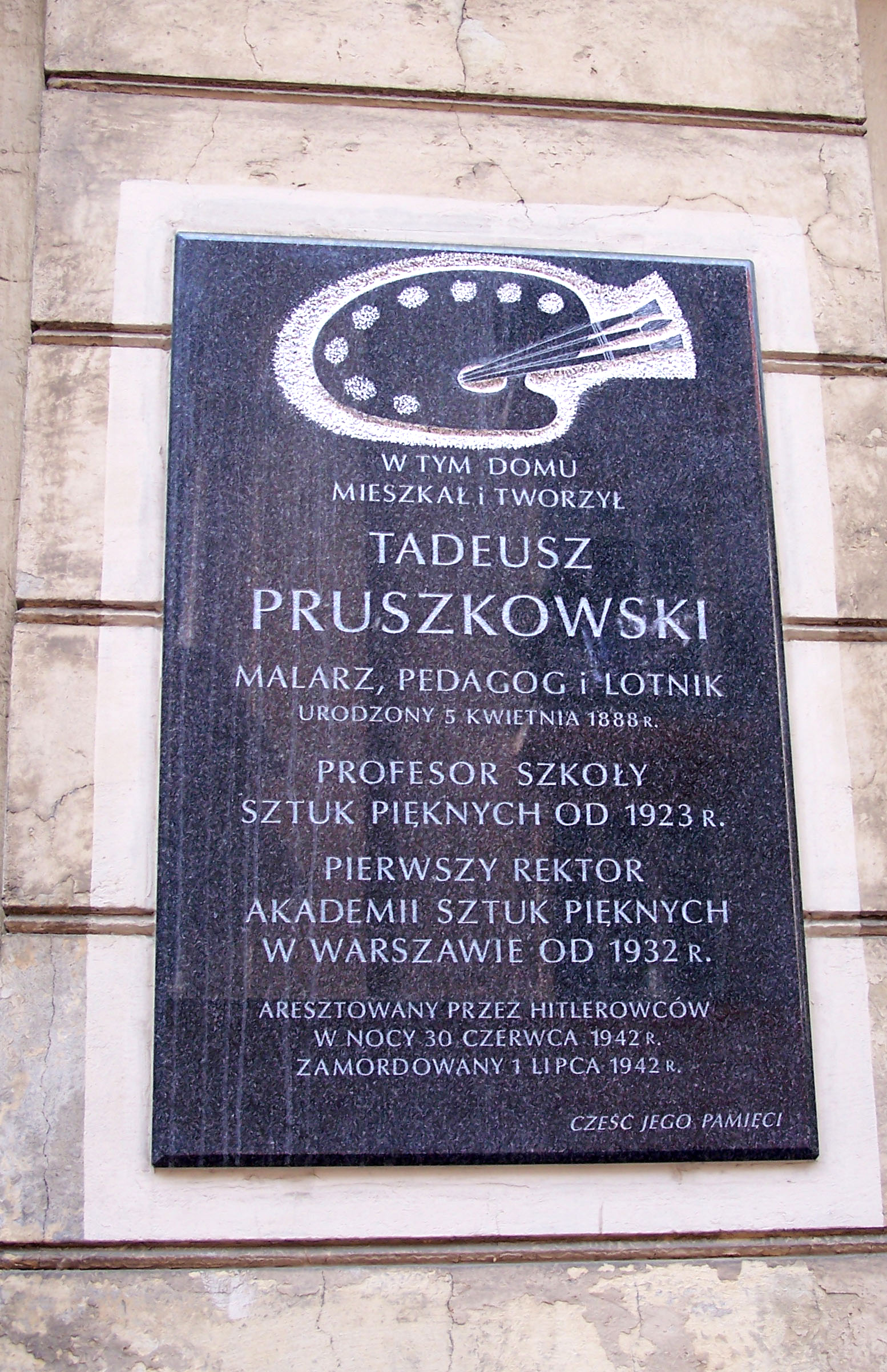 Memorial plaque to painter Tadeusz Pruszkowski, at the house where he lived in Warsaw, Poland